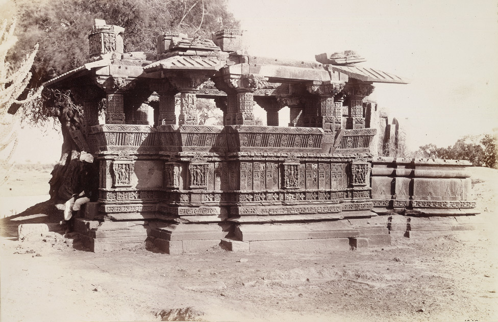 From the source, Photograph of the old temple near the tank at Dilmal in Gujarat, taken by Henry Cousens around the 1880s, from the Archaeological Survey of India Collections. In the 'Revised Lists of Antiquarian Remains in the Bombay Presidency' of 1897, Burgess and Cousens write: 'In the village, enclosed within a rectangular walled court, is the principal temple, that of the presiding deity of the village - the goddess Limboji Mata - of comparatively recent construction. This temple occupies the site of a far older shrine, a portion of whose materials has been rebuilt into the new one. The surrounding minor shrines, which were appendages to this older central temple...show...that they were constructed during that period when architectural construction had reached its highest point of excellence. The image of Limboji Mata was originally in an old temple which now stands in ruins on the bank of the tank to the east of the village...Like the old shrine the new one faces north, a direction reserved for temples dedicated to Vishnu, goddesses and minor deities.